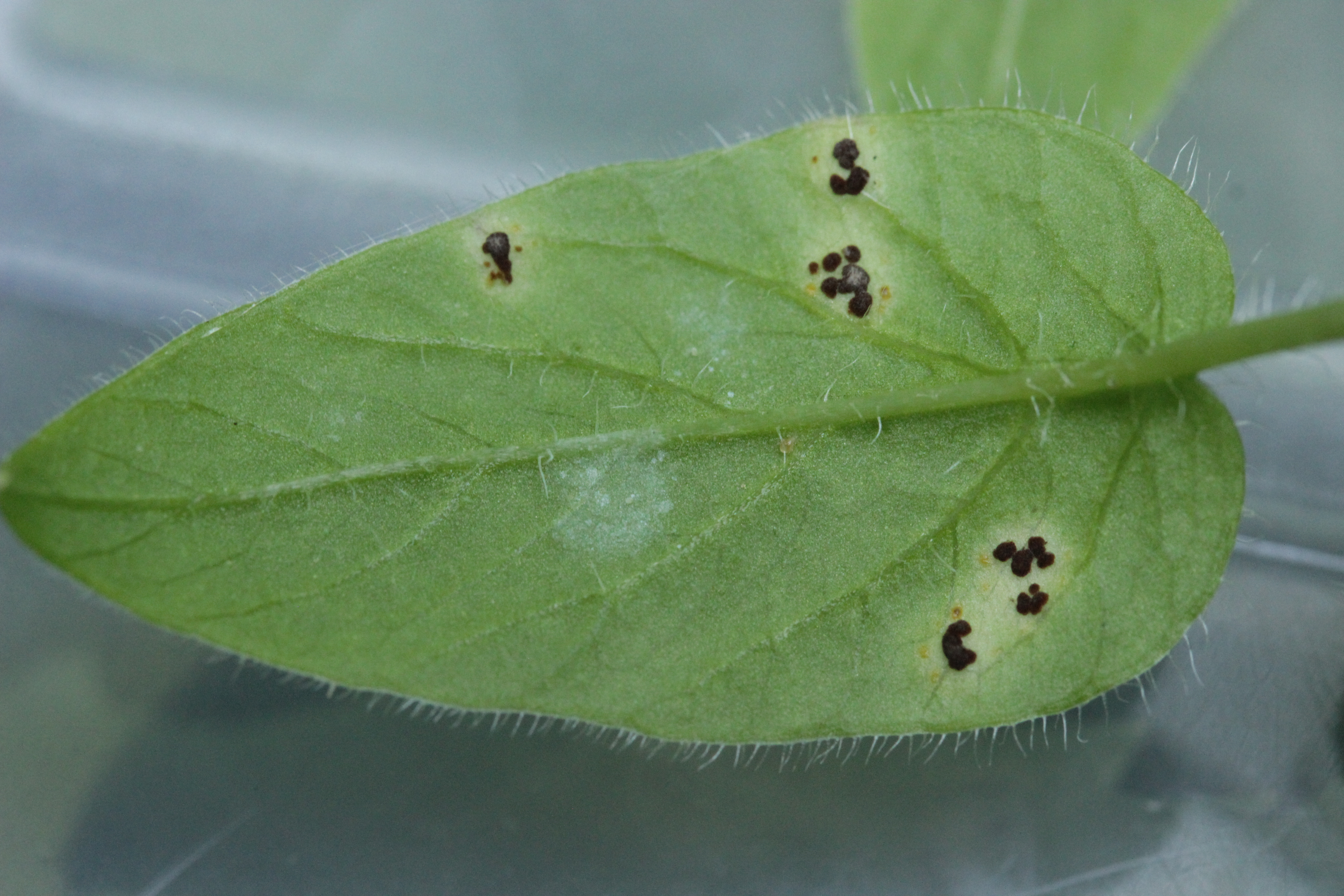 Puccinia arenariae on Wood Stitchwort - Stellaria nemorum